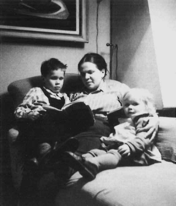 Photograph of the Finnish painter and teacher Karin Hellman (1915–2004) with her children Karl-Johan (1944–) and Åsa (1947–). Photographed at their home in Porvoo.